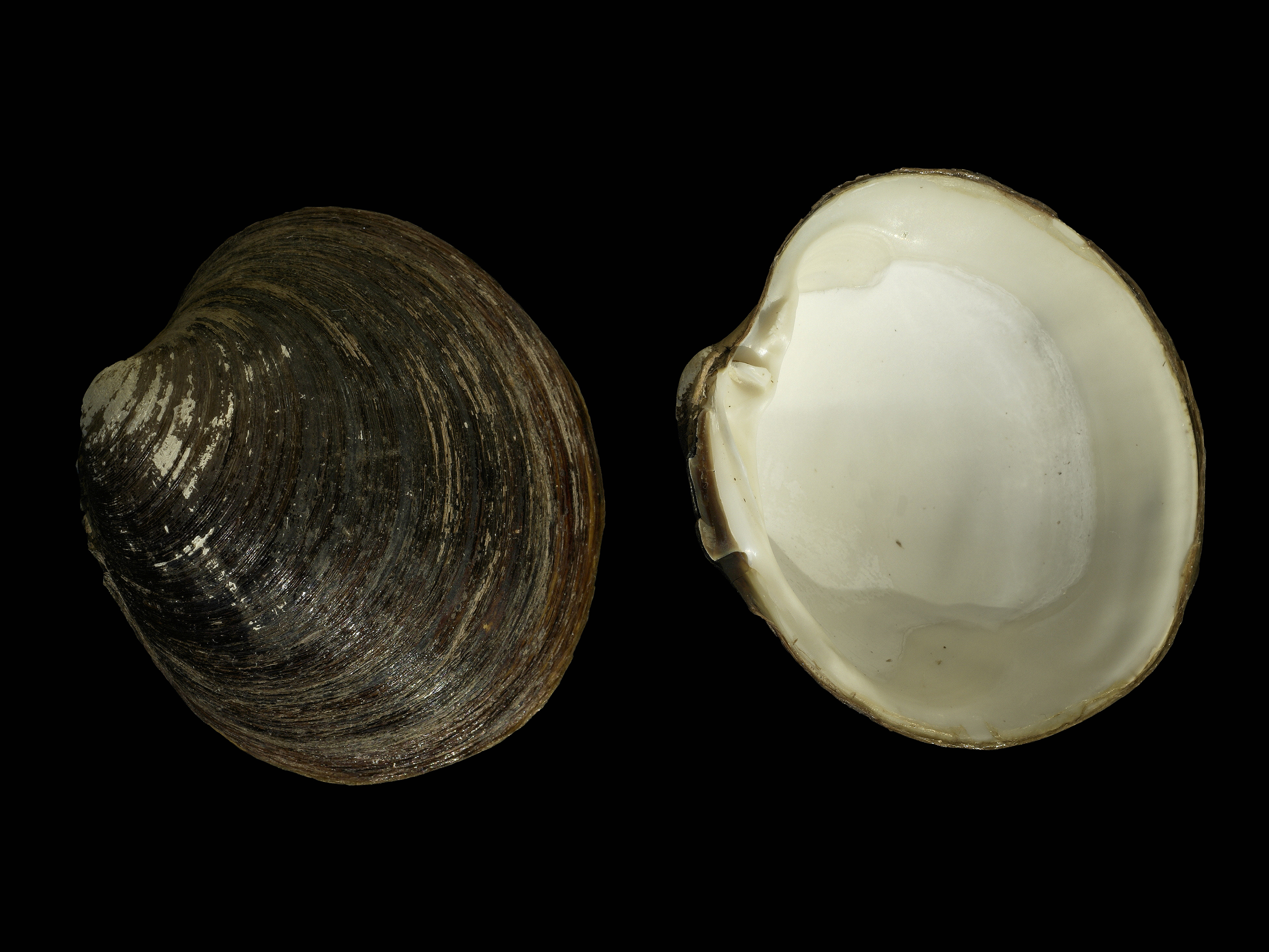 Ocean quahog from the North Sea. This is a retouched picture, which means that it has been digitally altered from its original version. Modifications: Removed (already dark) background.